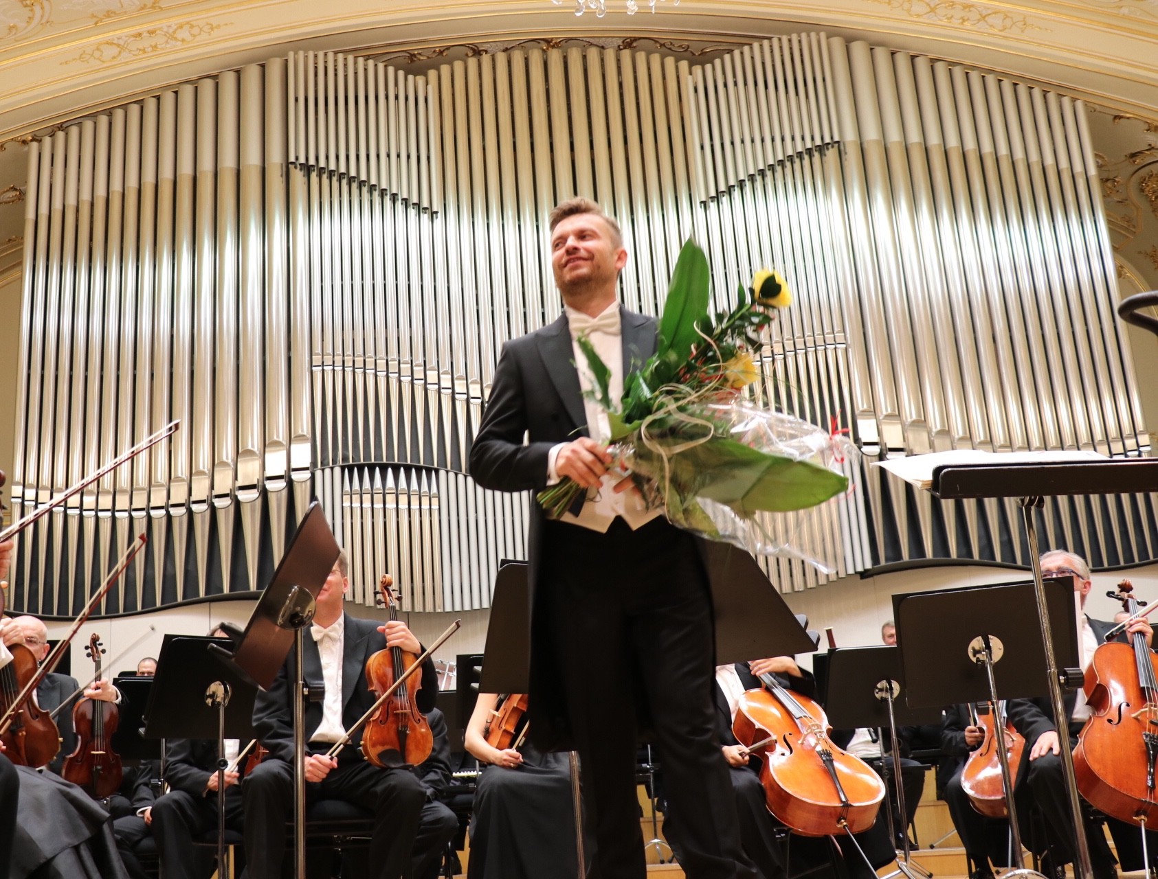 Pavol Breslik. Richard Strauss Konzert. Slowakische Philharmonie Bratislava. 17. September 2018.